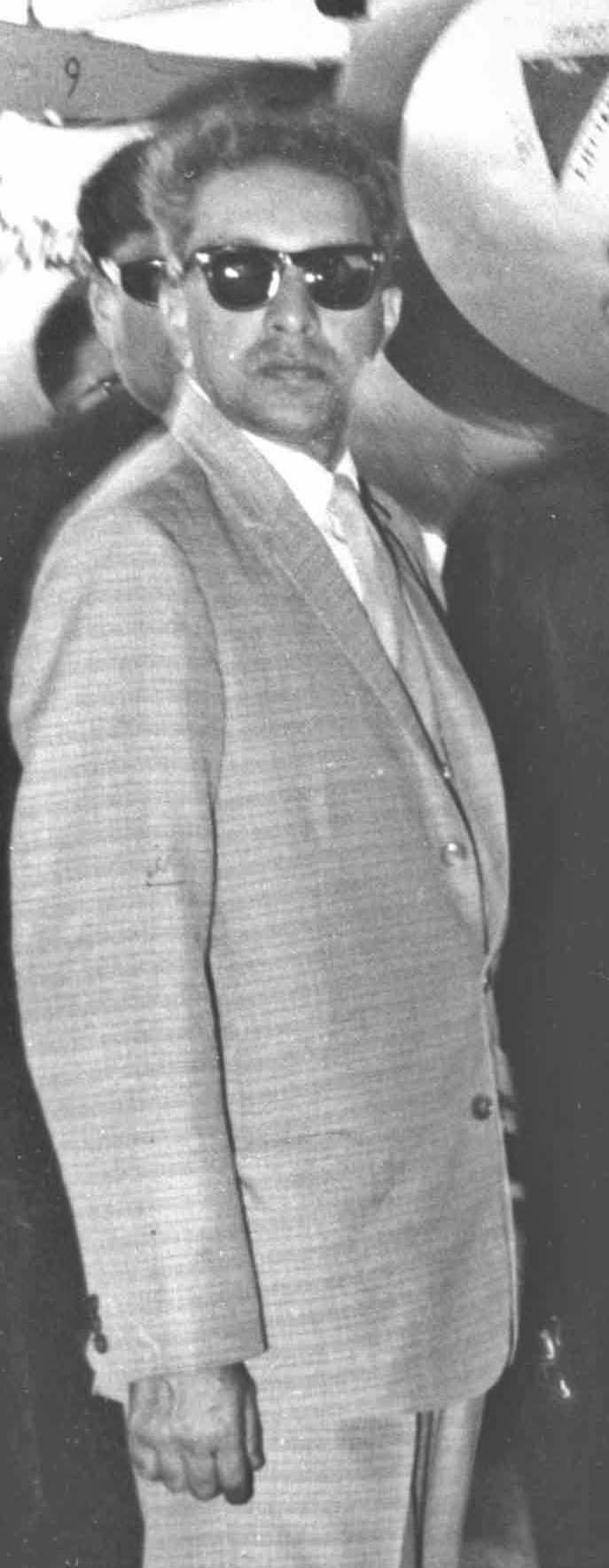 The King of Nepal, Mahendra Bir Bikram Shah Dev during his visit in Israel, 1958.